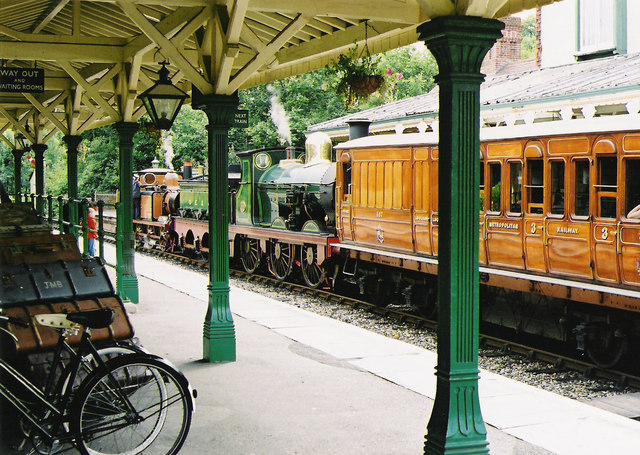 Bluebell Railway train at Kingscote station, West Sussex